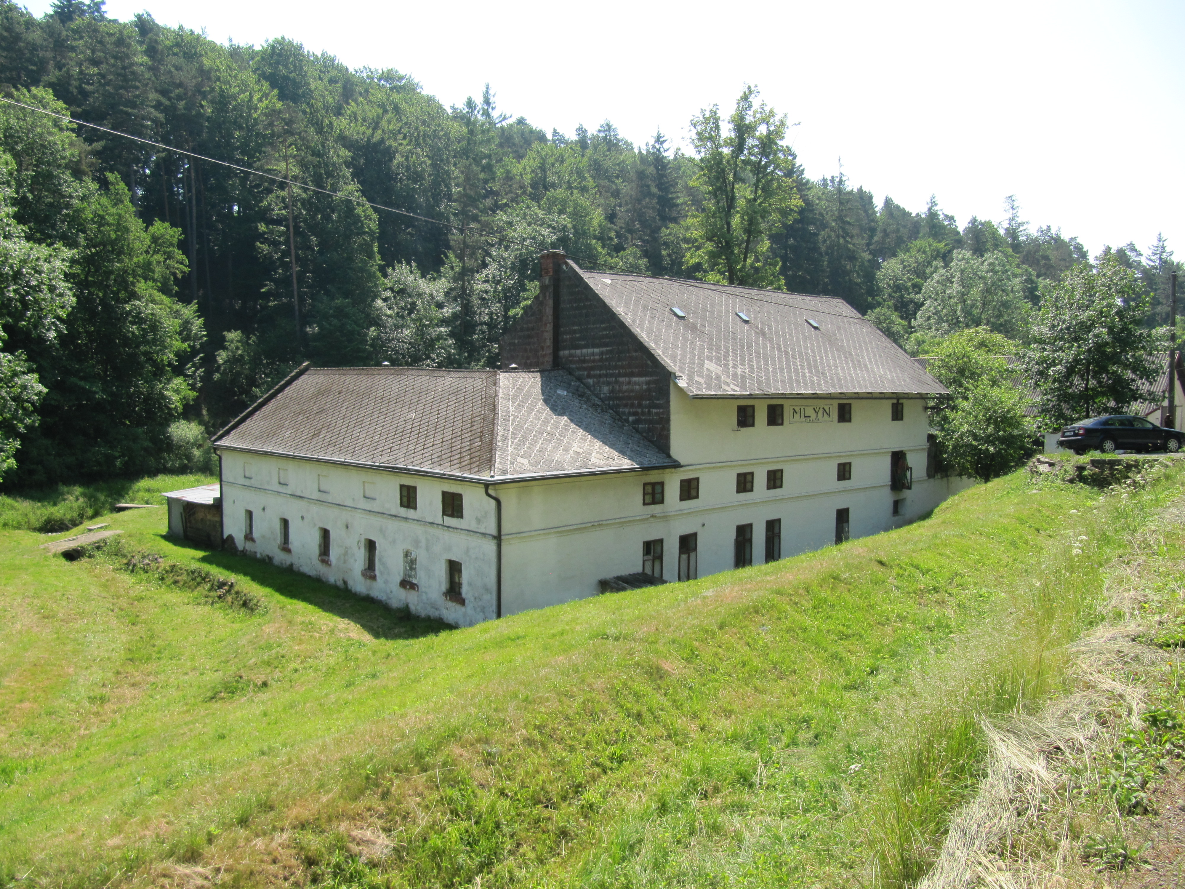 Březová, Opava District, Czech Republic, part Leskovec.